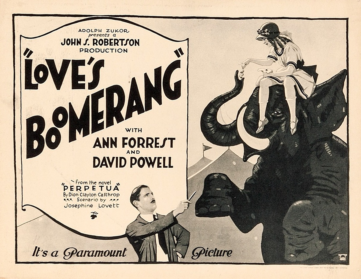 Lobby card for the American release of the British crime film Love's Boomerang (1922). The lobby card does not have any stills from the film and consists of a drawing.